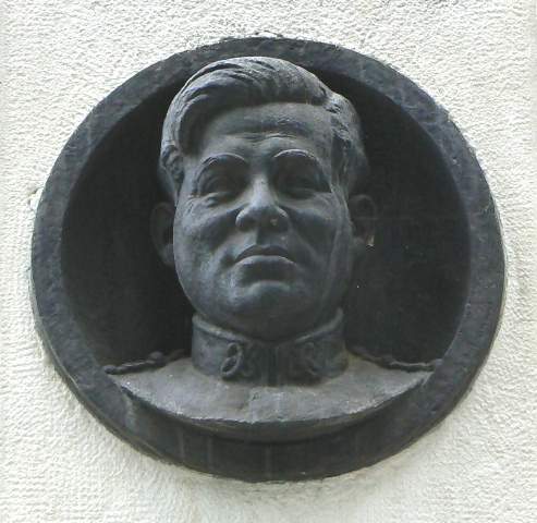 Bas-relief of Maestro Georgi Atanasov, Pazardzhik, Bulgaria